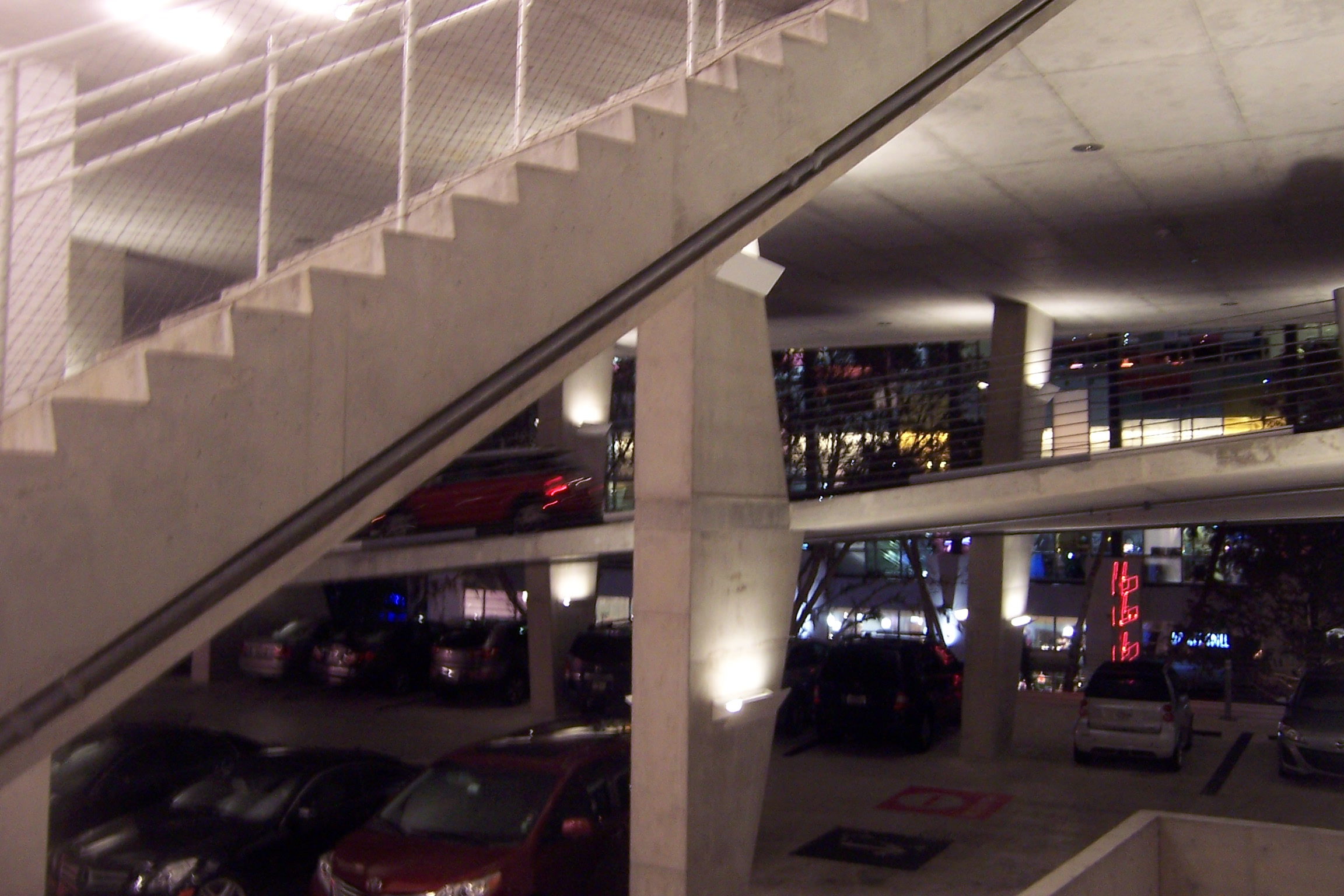 An interior view of the architecturally acclaimed 1111 Lincoln Road parking garage in South Beach. A Mini-Cooper is descending the ramps, as seen from the central staircase between the second and third floors, looking towards the Lincoln Road Mall.